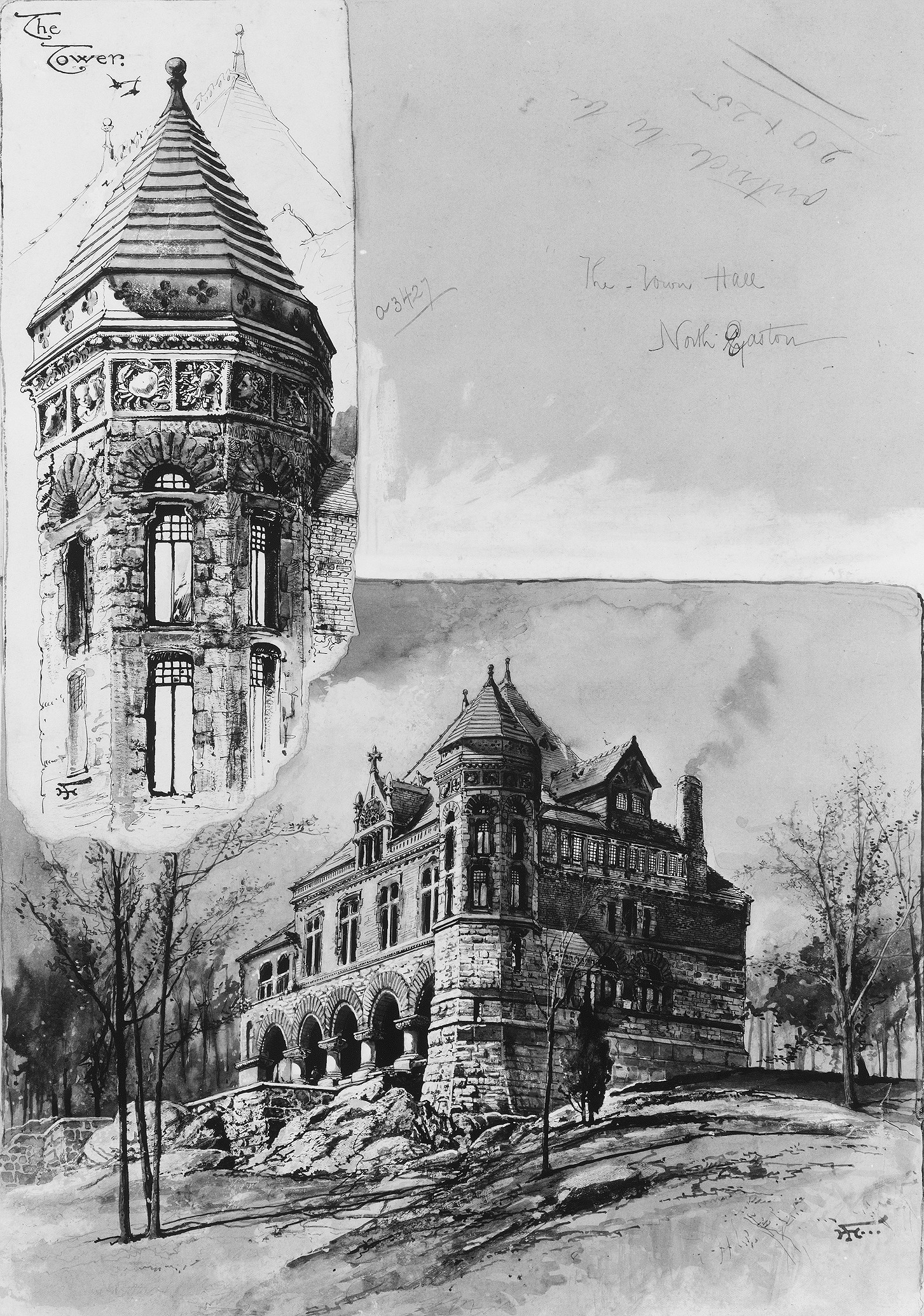 The Town Hall, North Easton, Massachusetts Artist:Harry Fenn (American (born England), Surrey 1845–1911 Montclair, New Jersey) Geography:Made in Massachusetts, United States Medium:Black and brown ink and gouache, on paperboard Dimensions:19 3/4 x 13 5/16 in. (50.2 x 33.8 cm) Classification:Drawings Credit Line:Gift of Herbert Mitchell, 1996